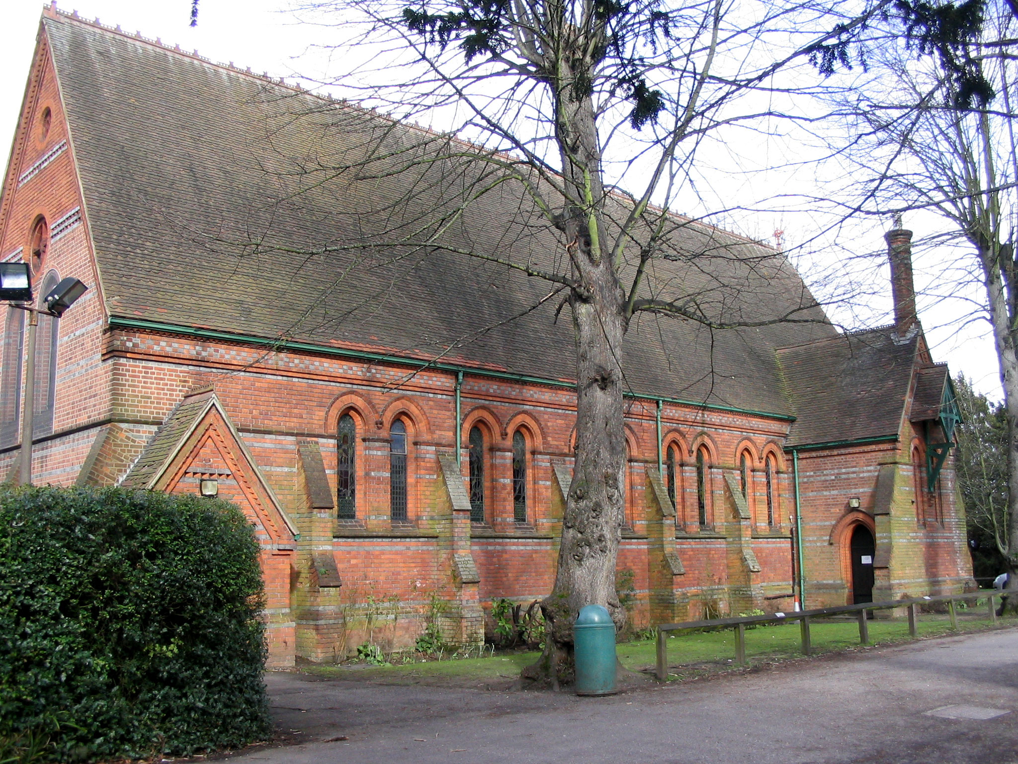 The chapel at Reading School, Berkshire, England.